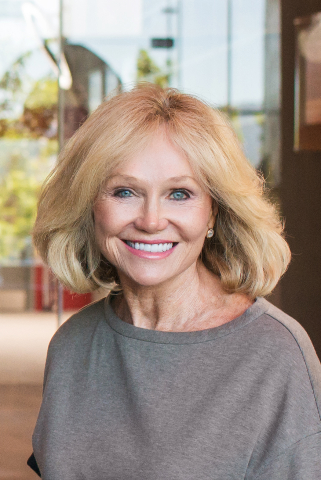 Kathryn Hall